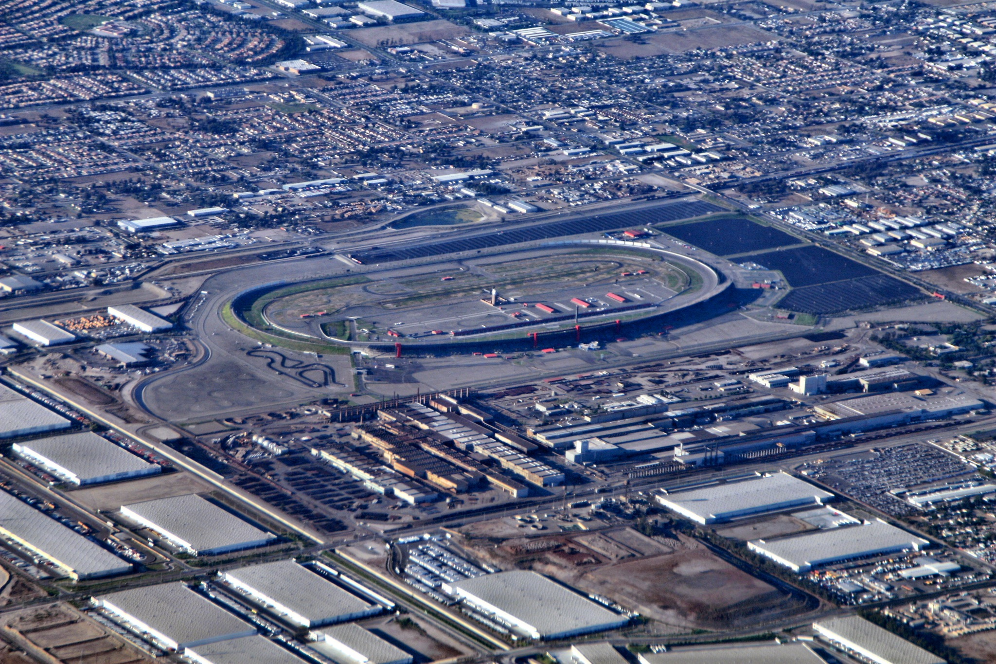 The California Speedway in Fontana. Also known as the Ontario Speedway.